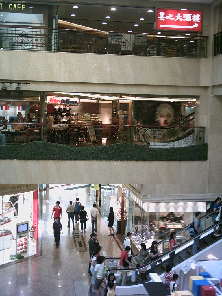 Second, third, and fourth floor of Landmark North. Taken by myself in August, 2006.